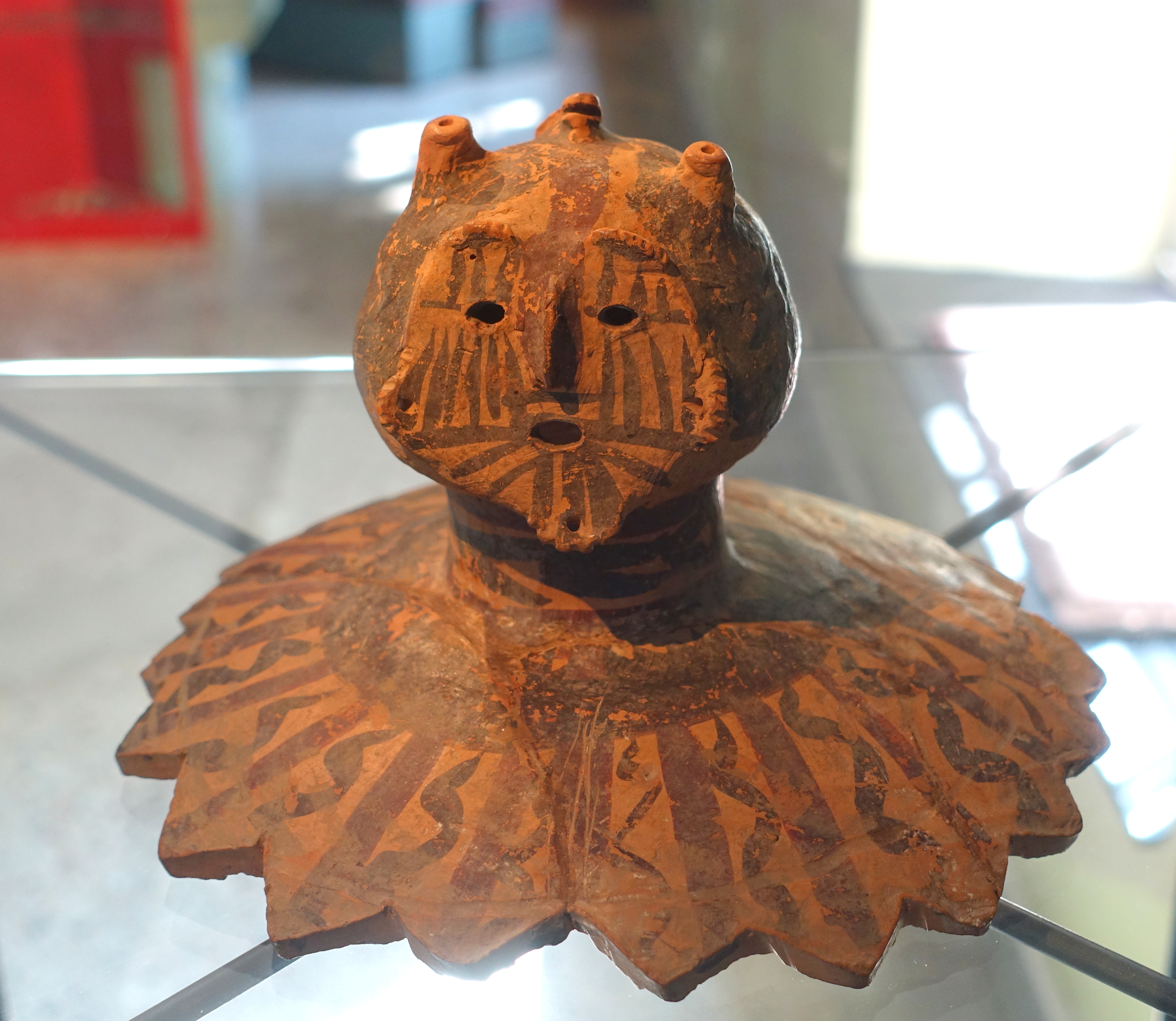 Exhibit in the Östasiatiska museet, Stockholm, Sweden. This artwork is old enough so that it is in the public domain. This is a photo of an artwork at the Museum of Far Eastern Antiquities in Sweden with the identifier: K-11038-005